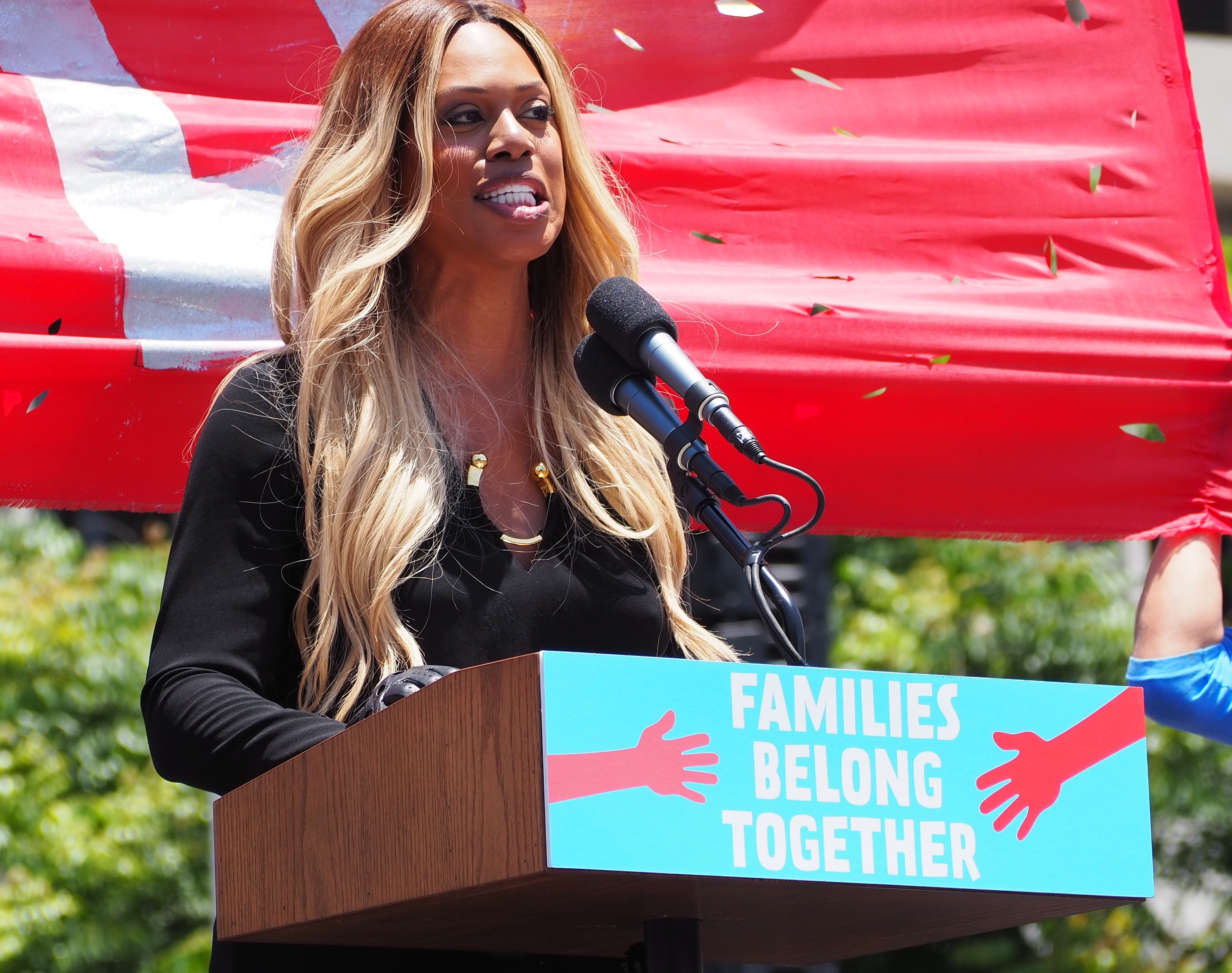 More than 50,000 protesters gathered at Grand Park in downtown L.A. to protest President Trump's "zero tolerance" immigration policy that resulted in 2,300 children being separated from their families after they illegally crossed the border into the U.S.